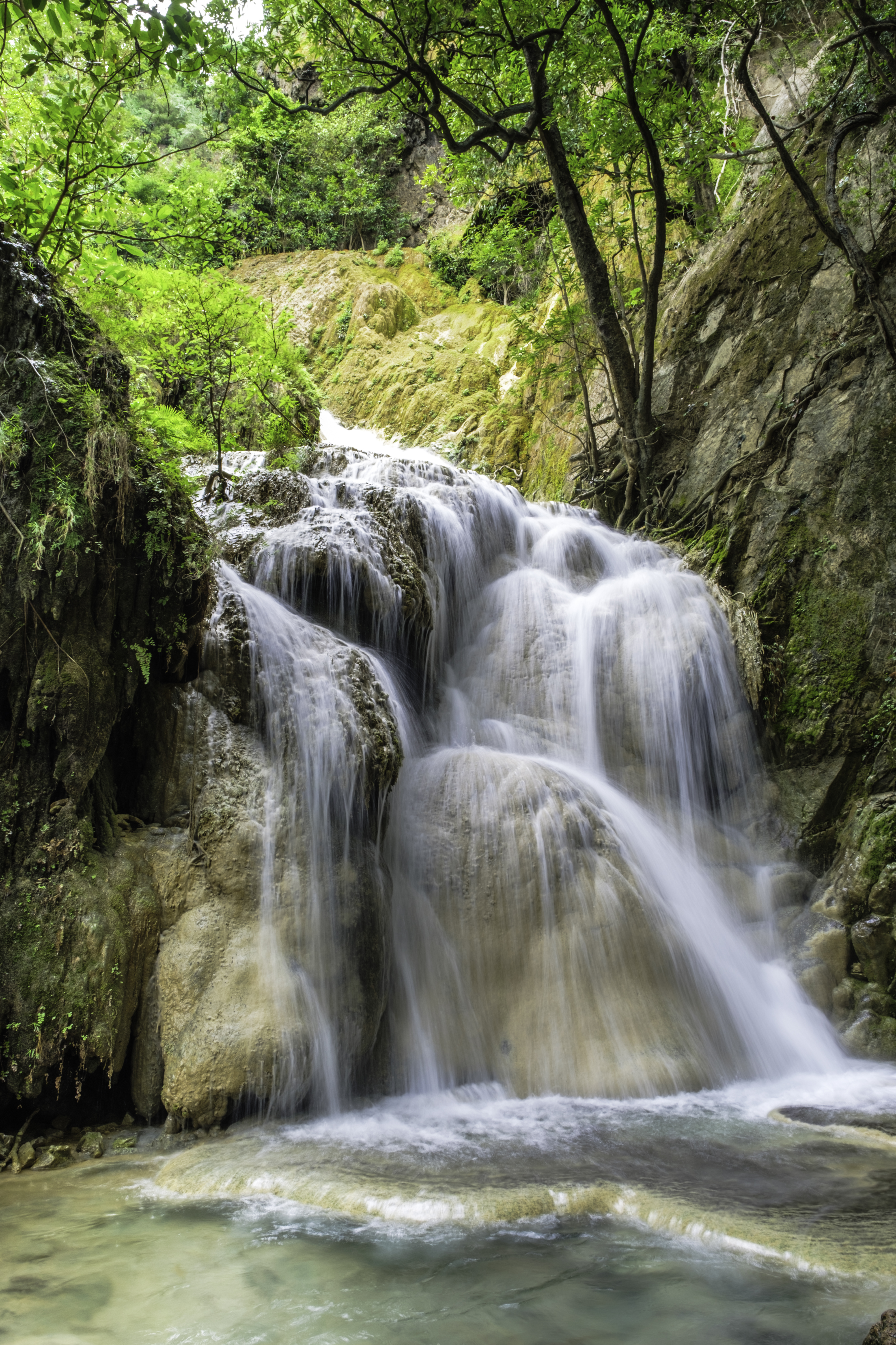 Erawan Waterfall - Kanchanaburi